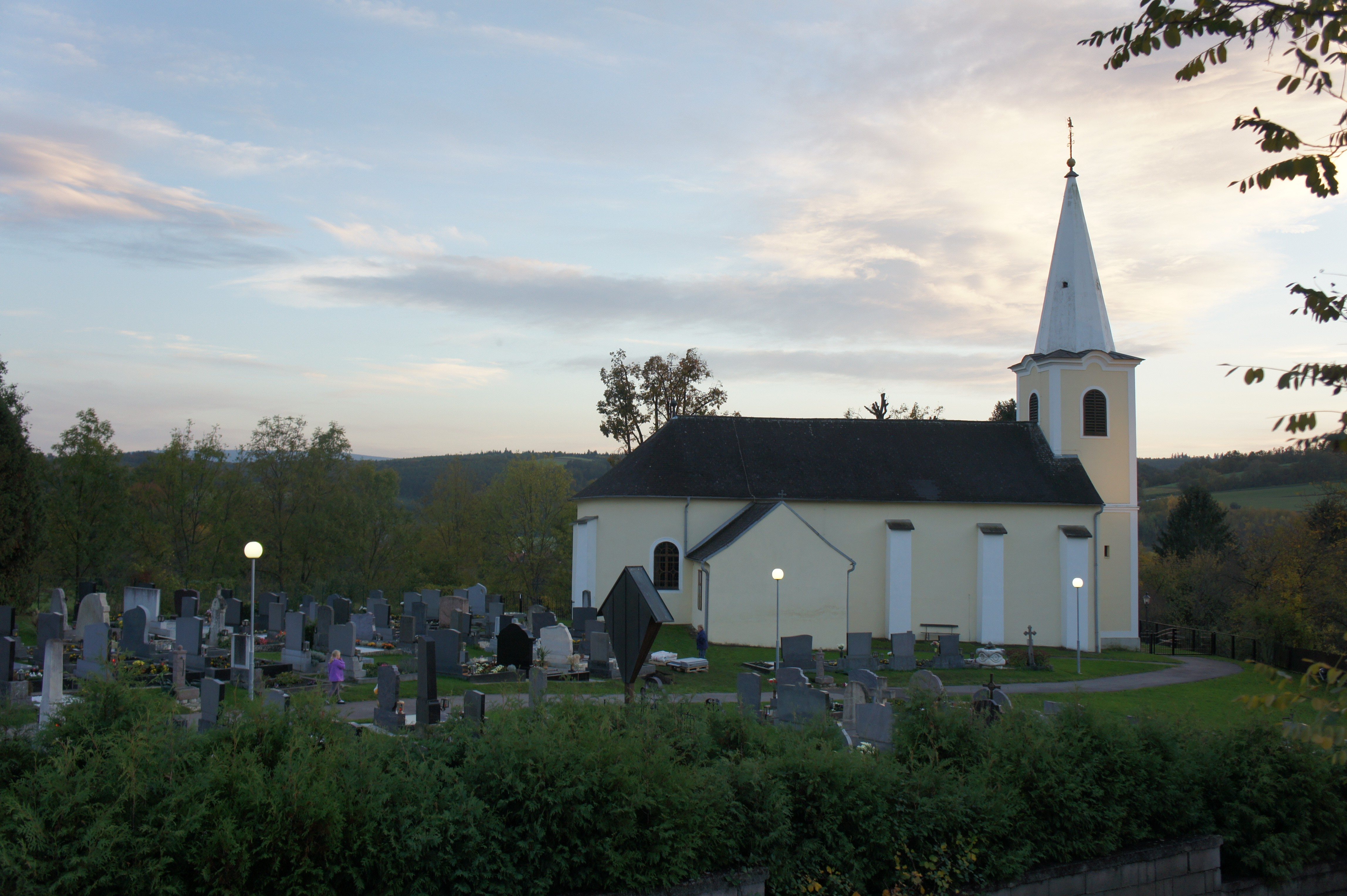 Catholic church St. Peter and Paul & cemetery, Unterrabnitz, Austria